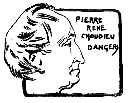 Portrait of French politician René-Pierre Choudieu (1761-1838) by Maurice Delcourt (1877-1917)